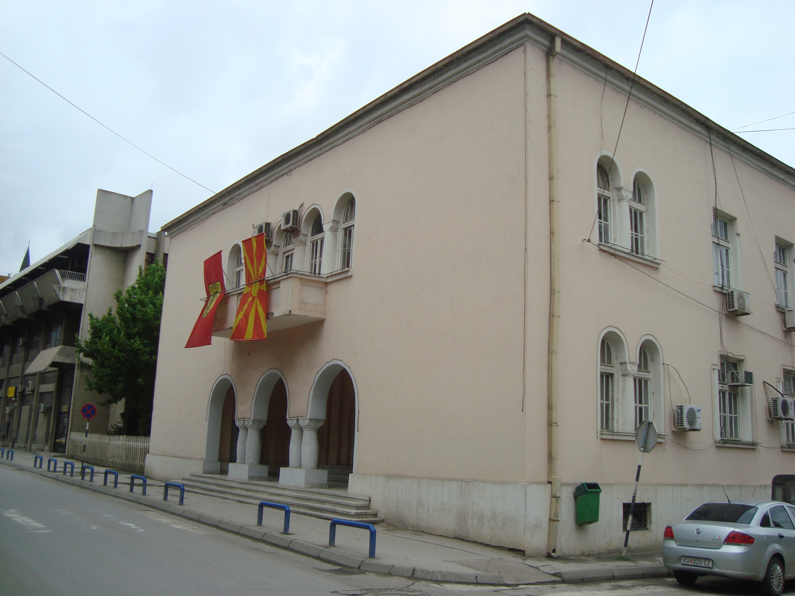 Kumanovo City Hall, Kumanovo, Macedonia.